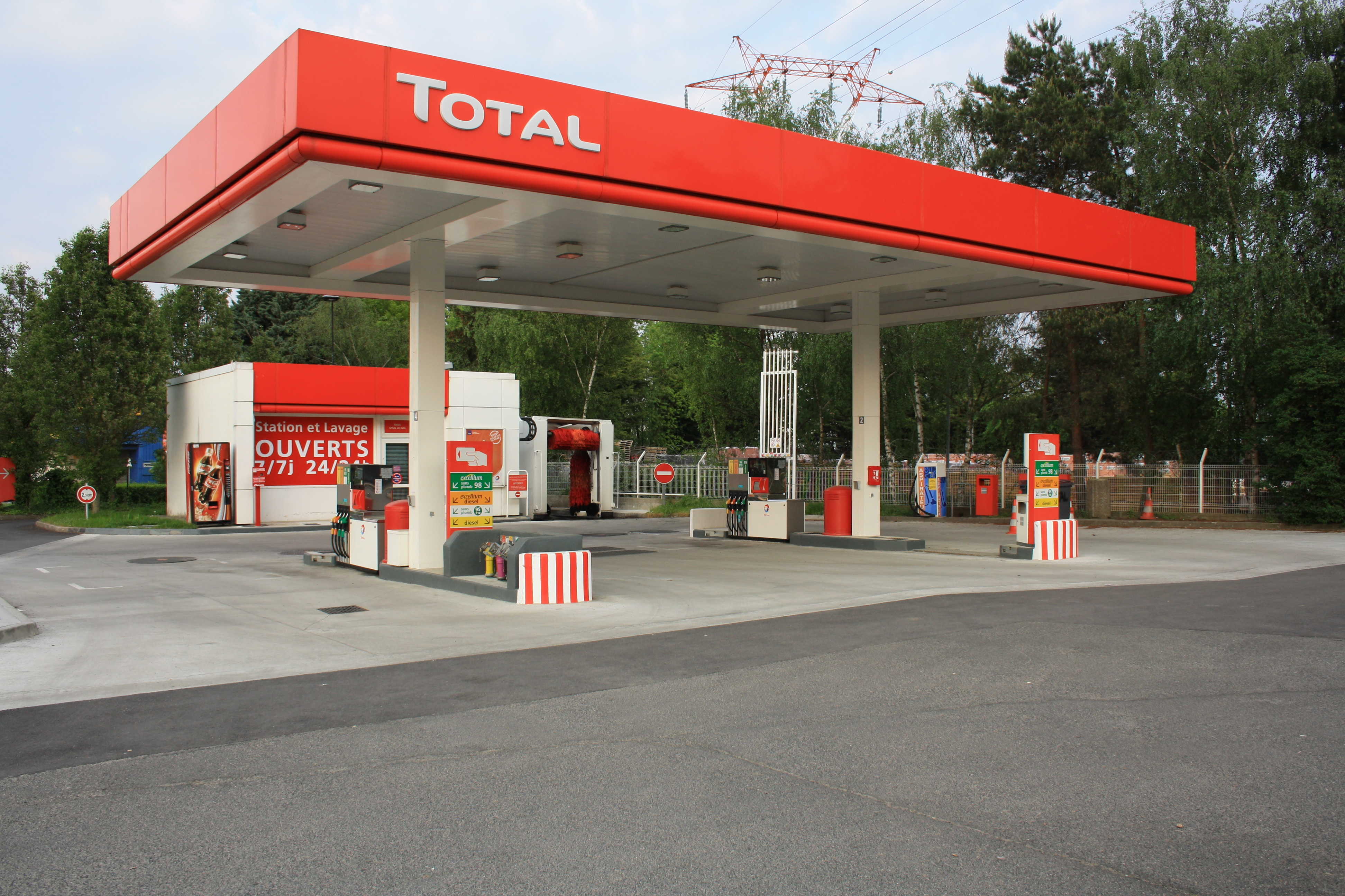 Petrol station Total in the Parc d'activités de Courtabœuf, an industrial park located at 22 kilometres in the south-west of Paris, in the department of Essonne, France.